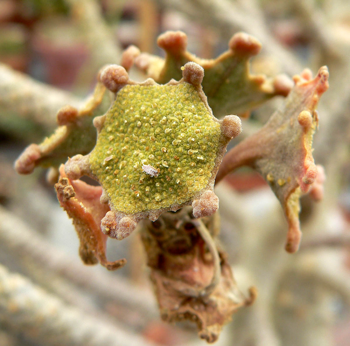 Photo of Dorstenia gigas at the University of California Botanical Garden